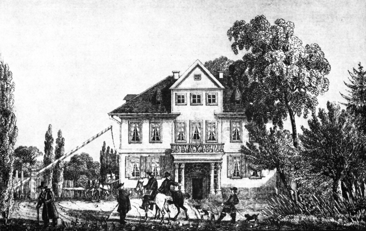 Großes Weghaus in Braunschweig-Stöckheim 1840